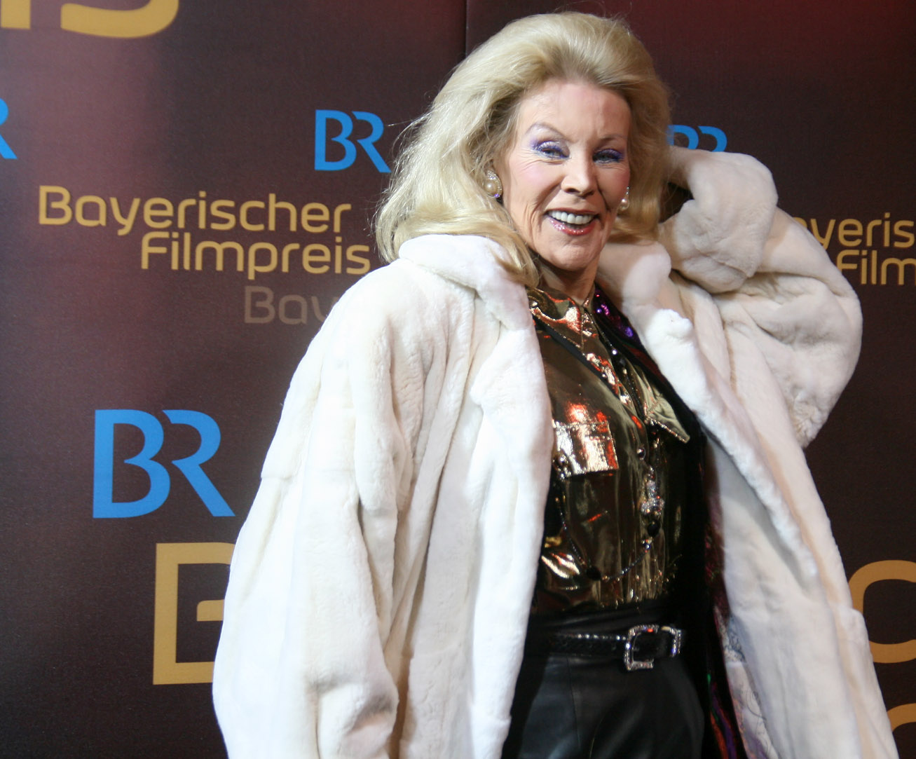 Birgit Bergen, Bavarian Film Awards 2012 at the Prinzregententheater in Munich.